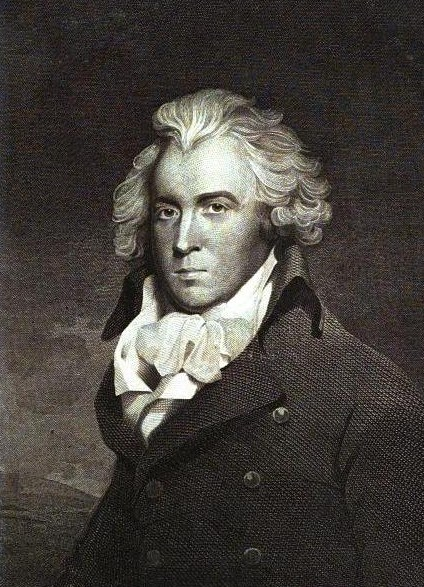 Portrait of James Cavanah Murphy (1760–1814), Irish architect and antiquary, from Travels in Portugal (1795).